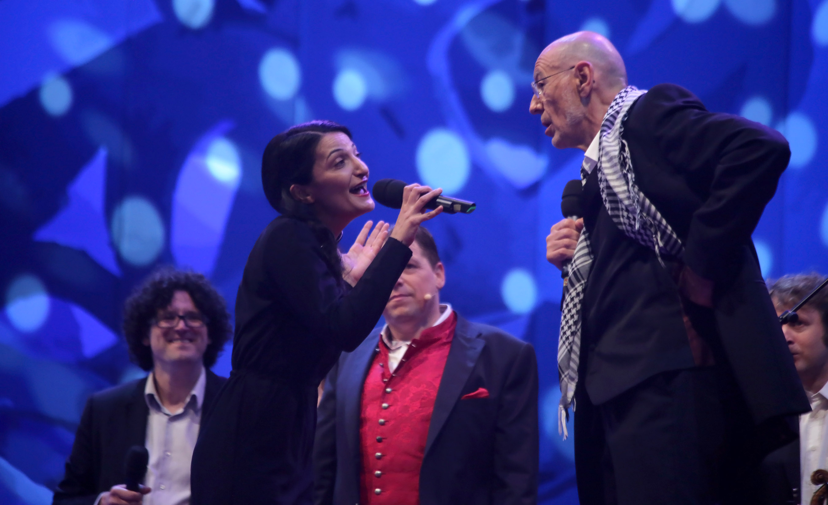 front: Fatima Spar and Willi Resetarits, back: Michael Schade and Die Strottern - opening evening of the Vienna Festival 2013 at the square in front of the Rathaus in Vienna, Austria